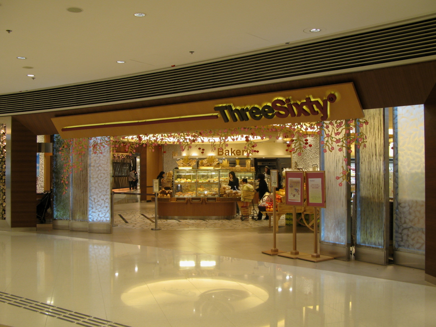 ThreeSixty Supermarket in the Elements Mall HK